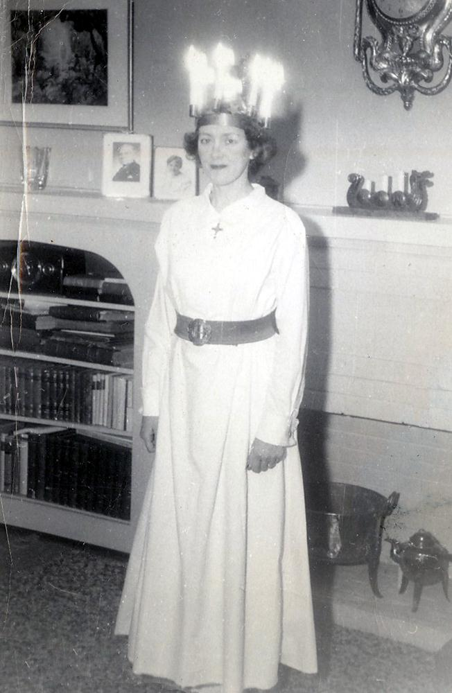 Birgit Ridderstedt as Saint Lucy Sankta Lucia in traditional Swedish garb and live candles; her parents behind her on the mantlepiecePlace: Ridderstedt residence, 7067 N. Ridge Avenue, Chicago, IL